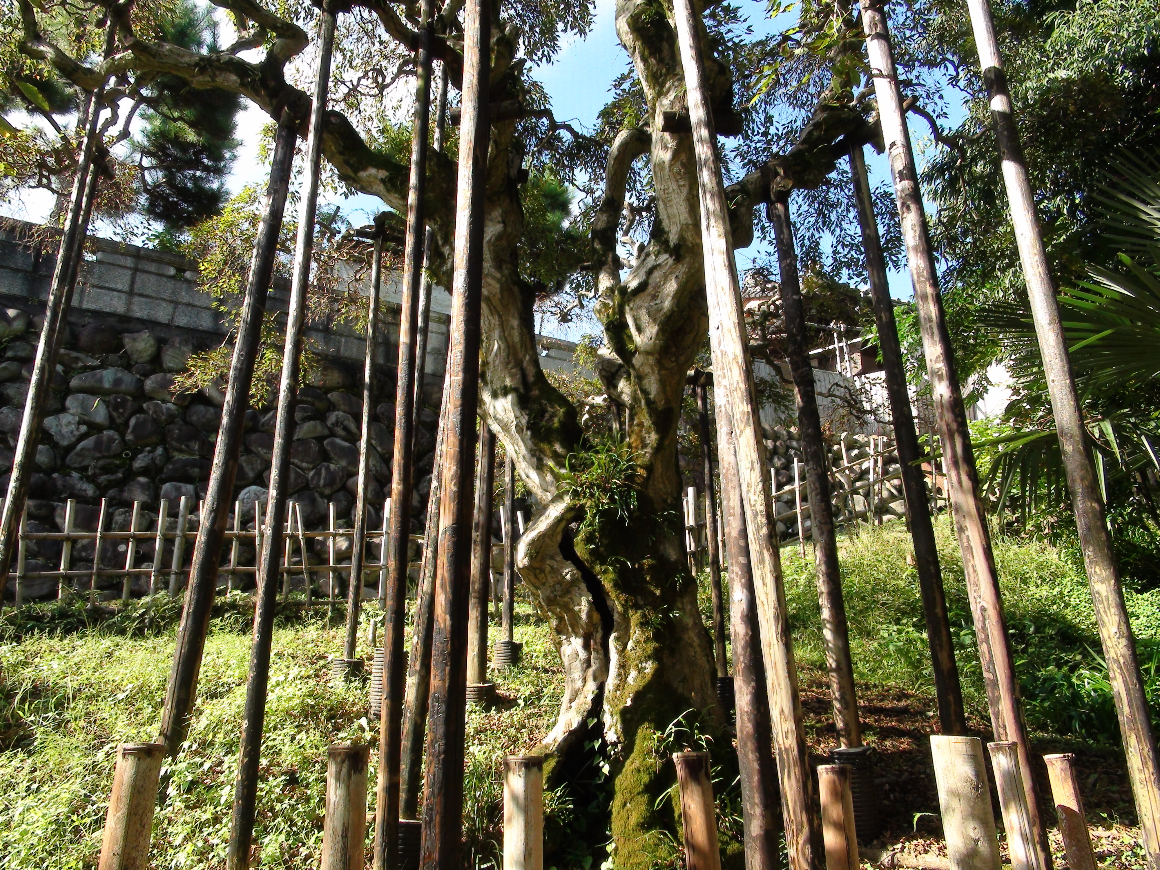 Sajigami shrines Shidare-Akashide